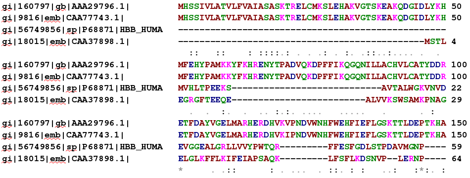 Improved version based on Image:Protein_alignment.jpg